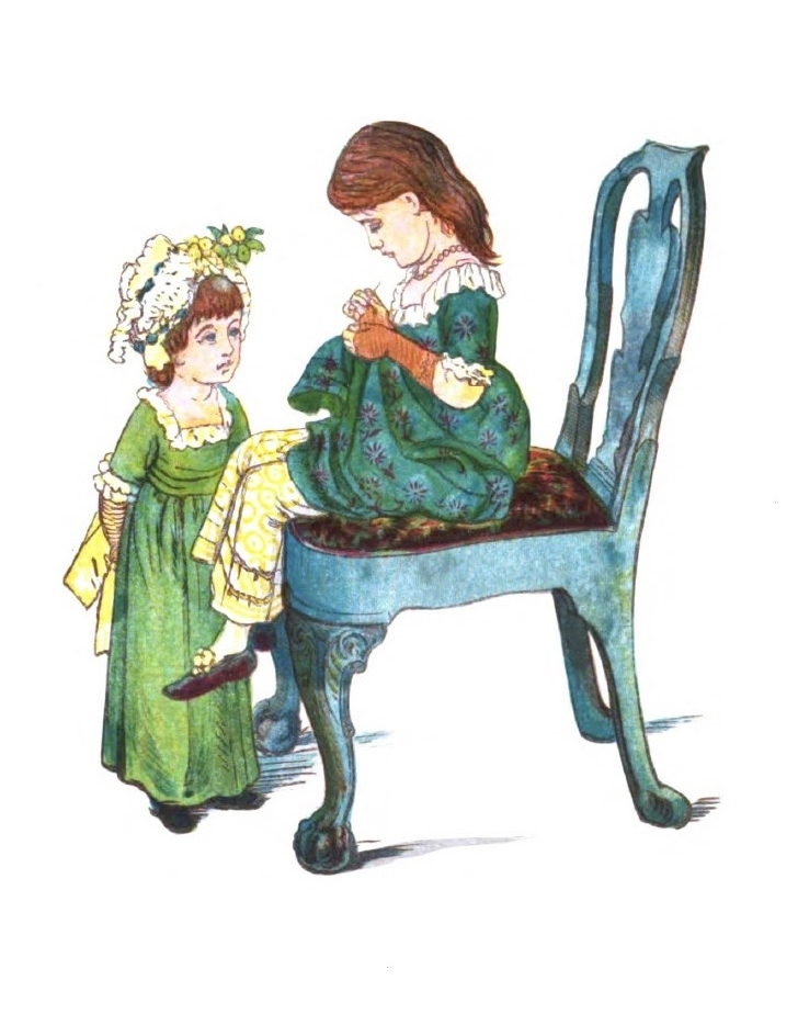 Image from Afternoon Tea